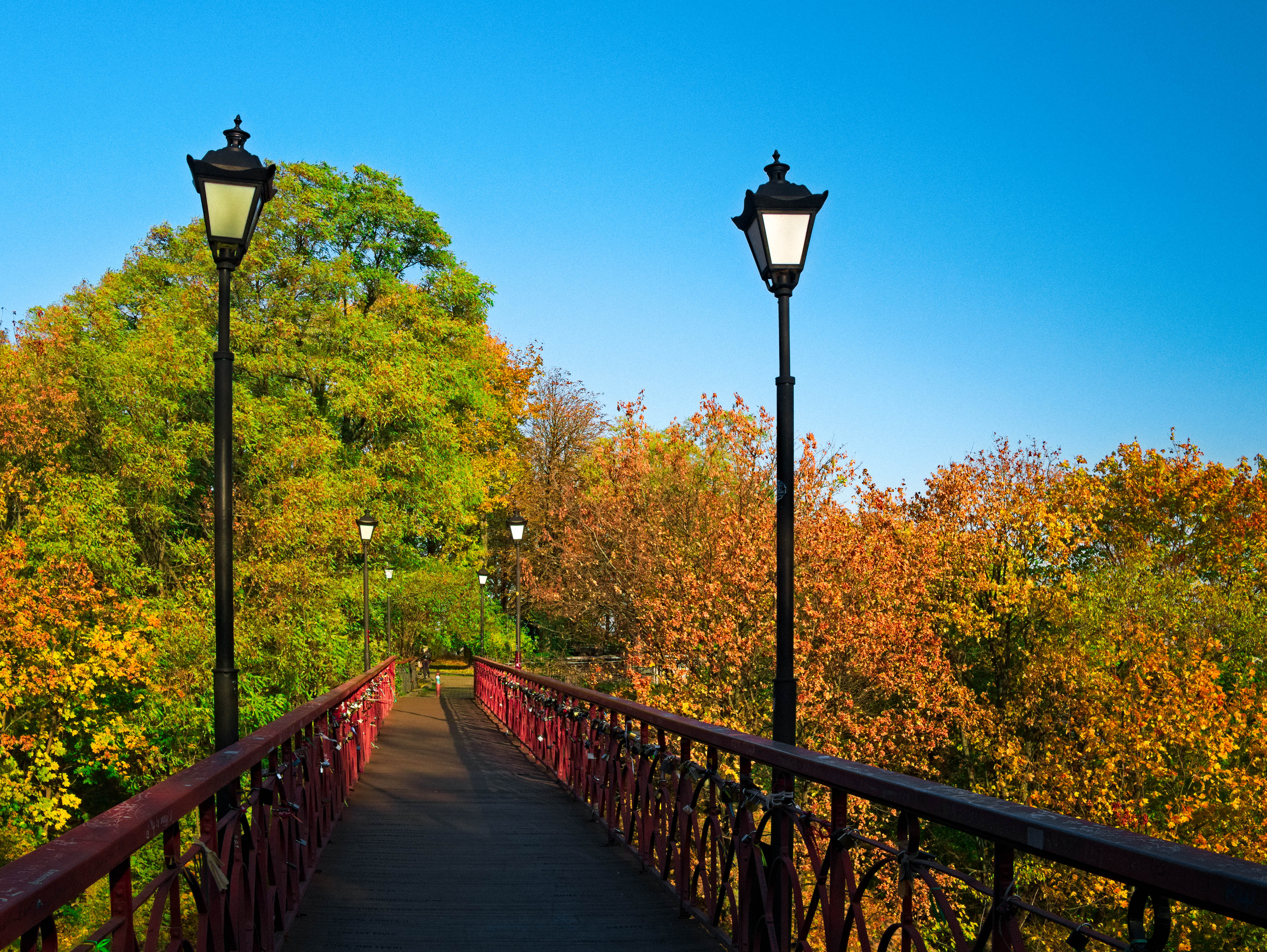 The "Bridge of Lovers" in Kiev (connecting City Park and Khreshchatyi Park) in the autumn.